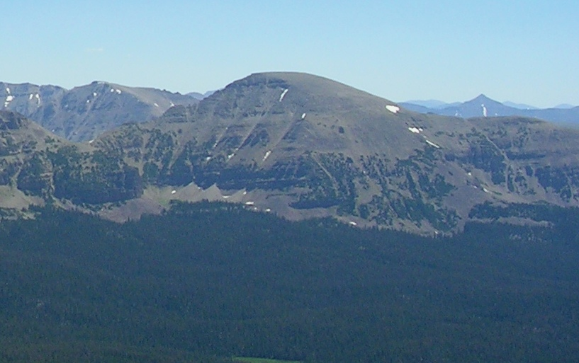 Picture of the west side of Mount Agassiz in the Uinta Mountains of Utah